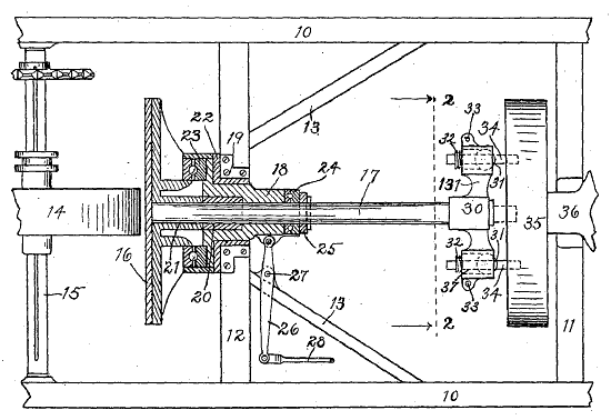 Excerpt from diagram of 954,977 for Friction Driving Mechanism by John W. Lambert